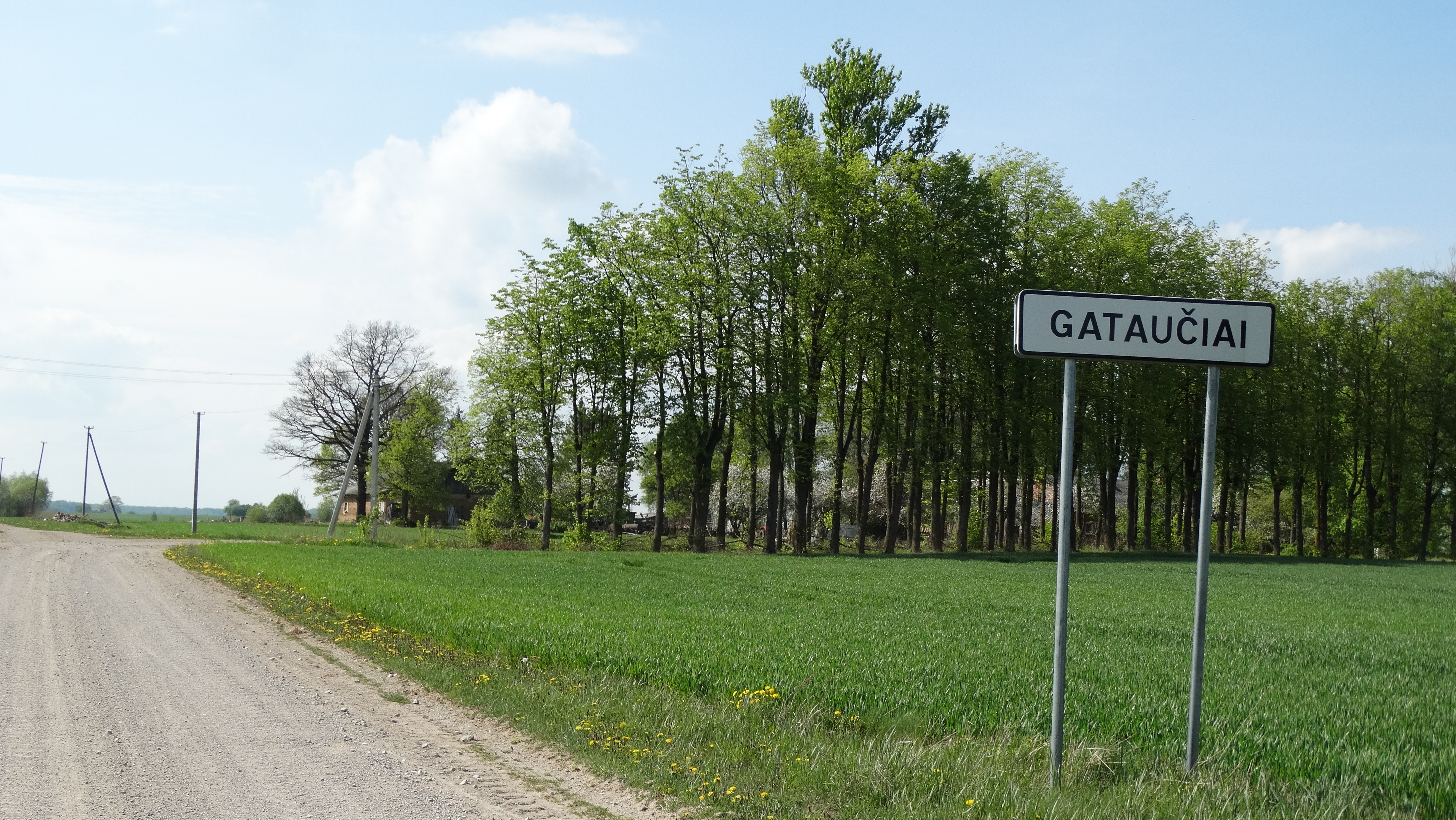 Gataučiai, Pakruojis district, Lithuania